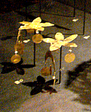 Scythian earings. Tillia Tepe. Musee Guimet.